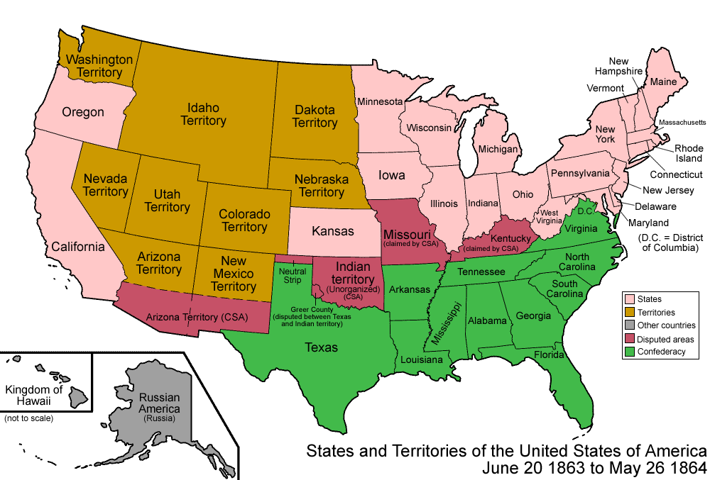 Map of the states and territories of the United States as it was from June 1863 to May 1864. On June 20 1863, several counties of Virginia split to join the Union, and were admitted as the state of West Virginia. On May 26 1864, Montana Territory was split from Idaho Territory, which further lost some land to Dakota Territory.